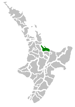 Western Bay of Plenty Territorial Authority